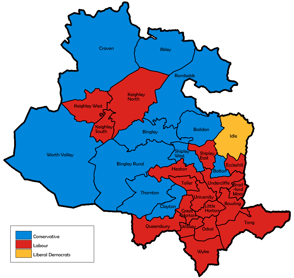 Ward map of Bradford Council with political colouring for the 1991 election.